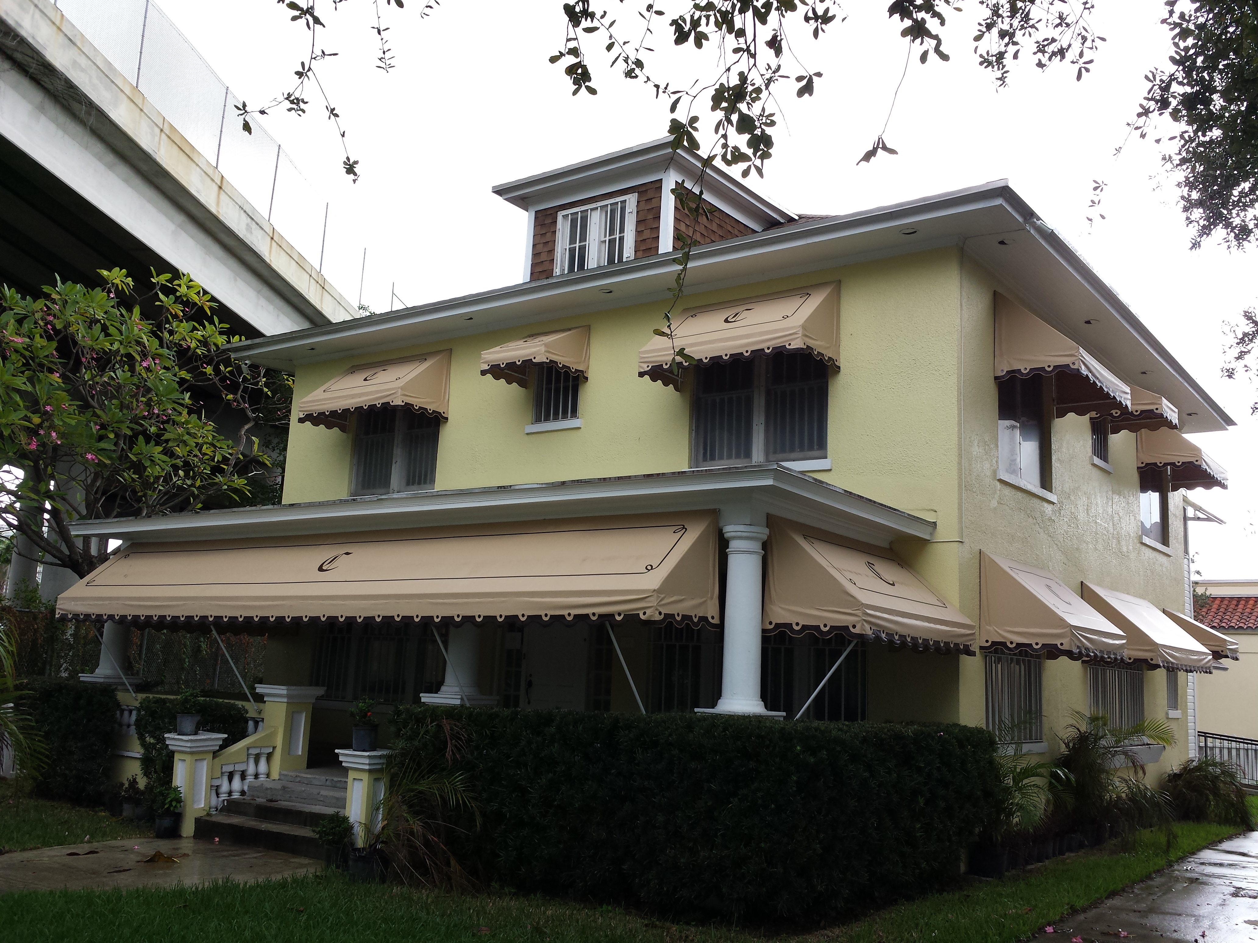 Overtown: Dr. William A. Chapman House, 1200 NW 6th Ave (Booker T. Washington Sr High School), Miami, FL